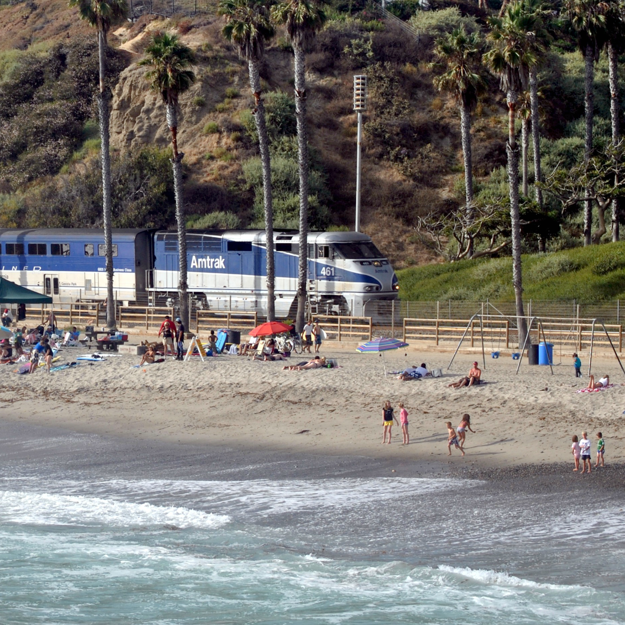 Beach revellers are oblivious to the passing train as it heads towards San Diego. Photographed from San Clemente pier.